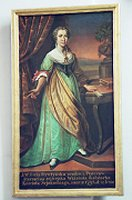 Róża z Platerów Strutyńska